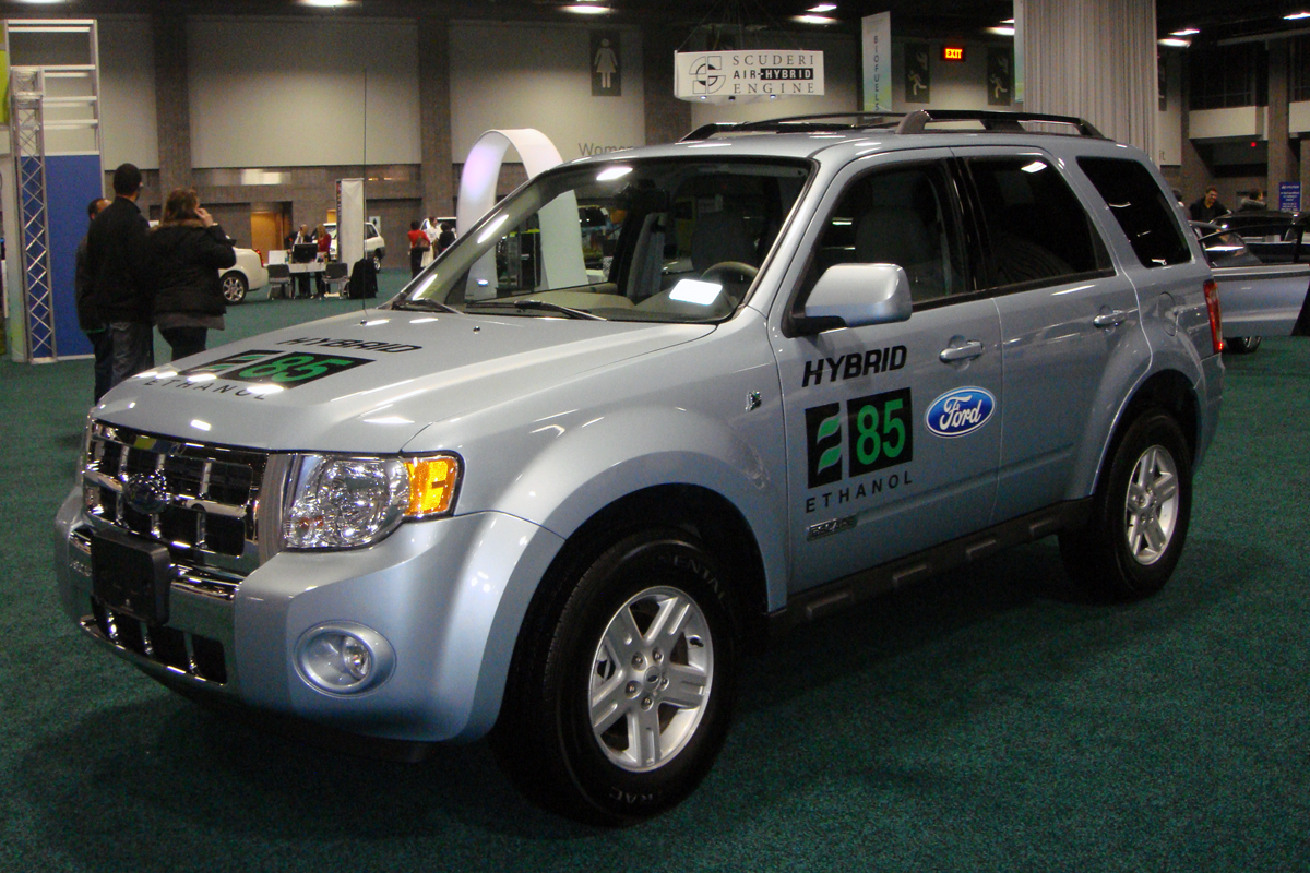 Ford Escape E85 Flexible-fuel Hybrid at the 2010 Washington Auto Show